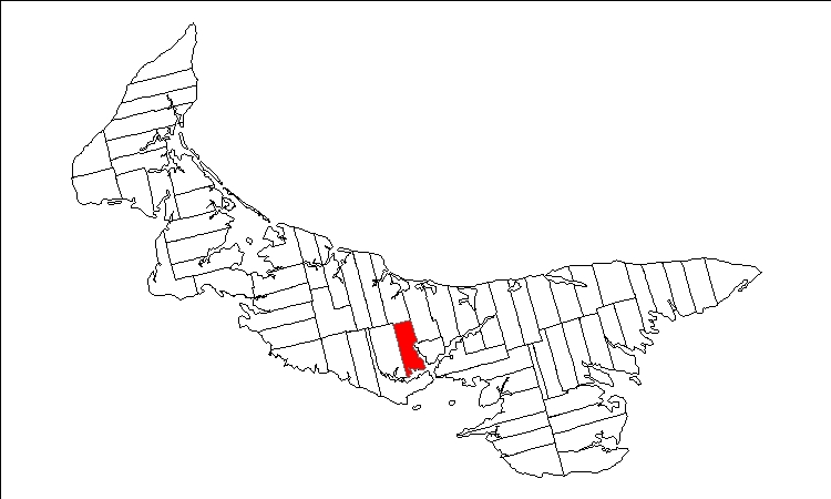 Public domain map of Prince Edward Island created by User:Plasma east with data courtesy of Geogratis, modified to show townships. Released under GFDL (self).